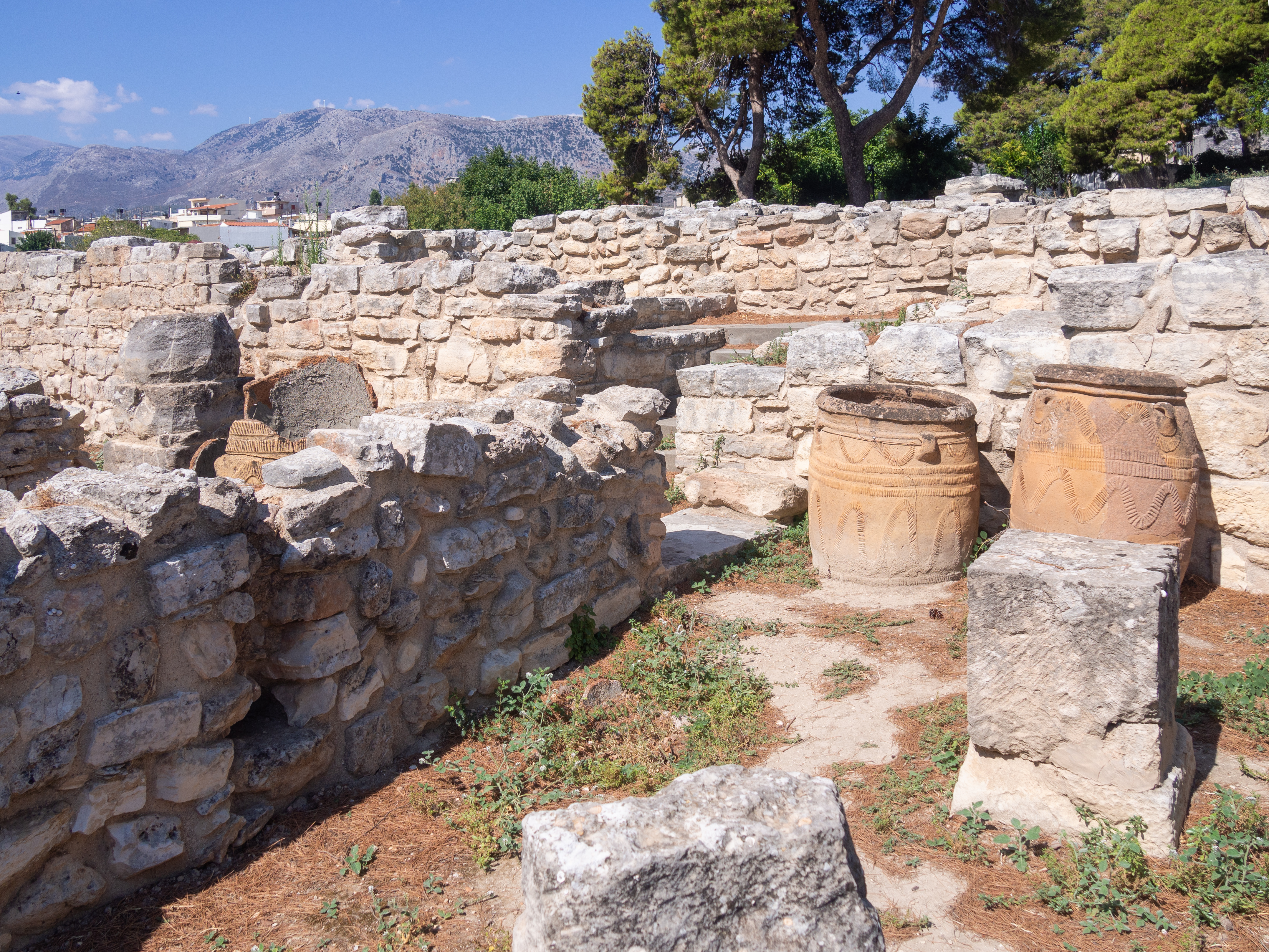 Megaron A, Minoan Tylissos«Τύλισος»